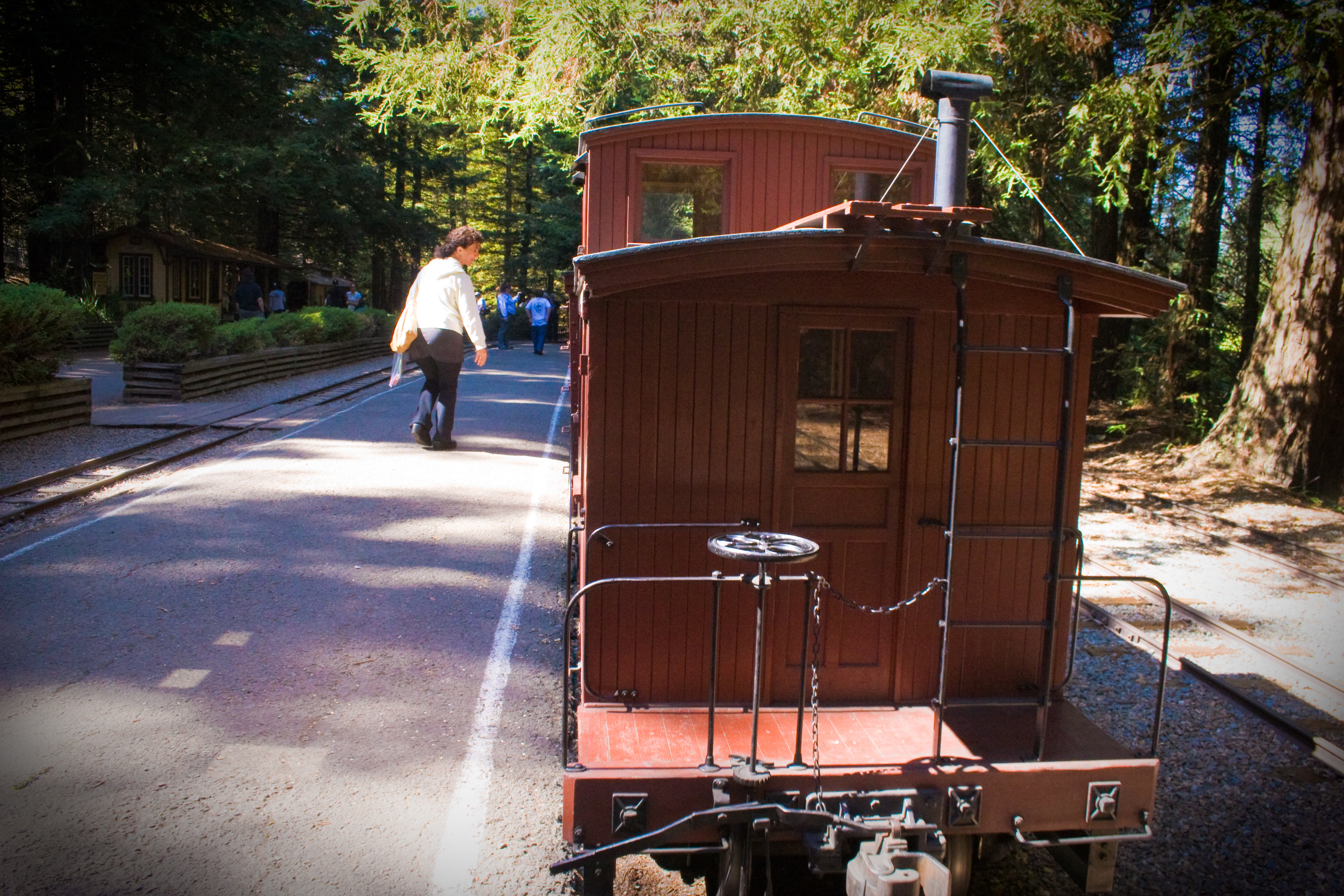 Remember that book? Well, I do.